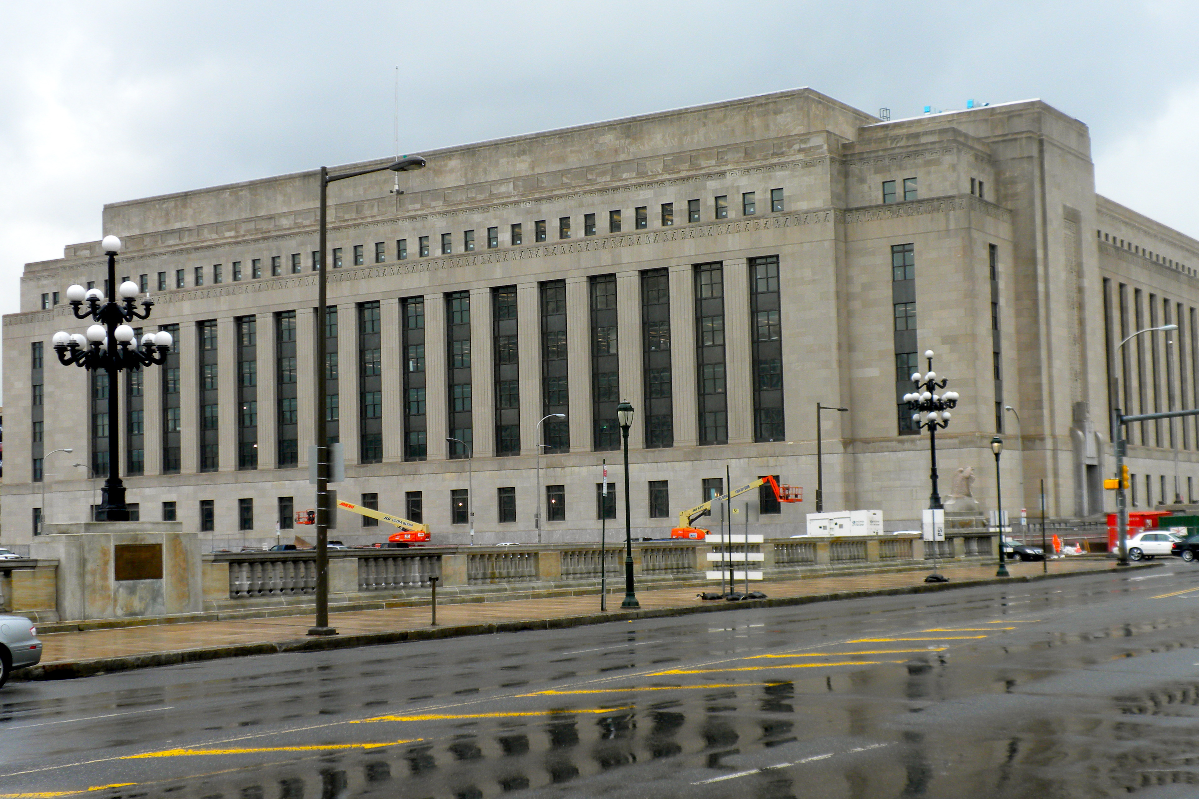 United States Post Office-Main Branch on the NRHP since September 5, 2006. At 2970 Market Street, in Philadelphia, next to the 30th Street Station and the Schuylkil River. Near University of Pennsylvania in University City neighborhood.